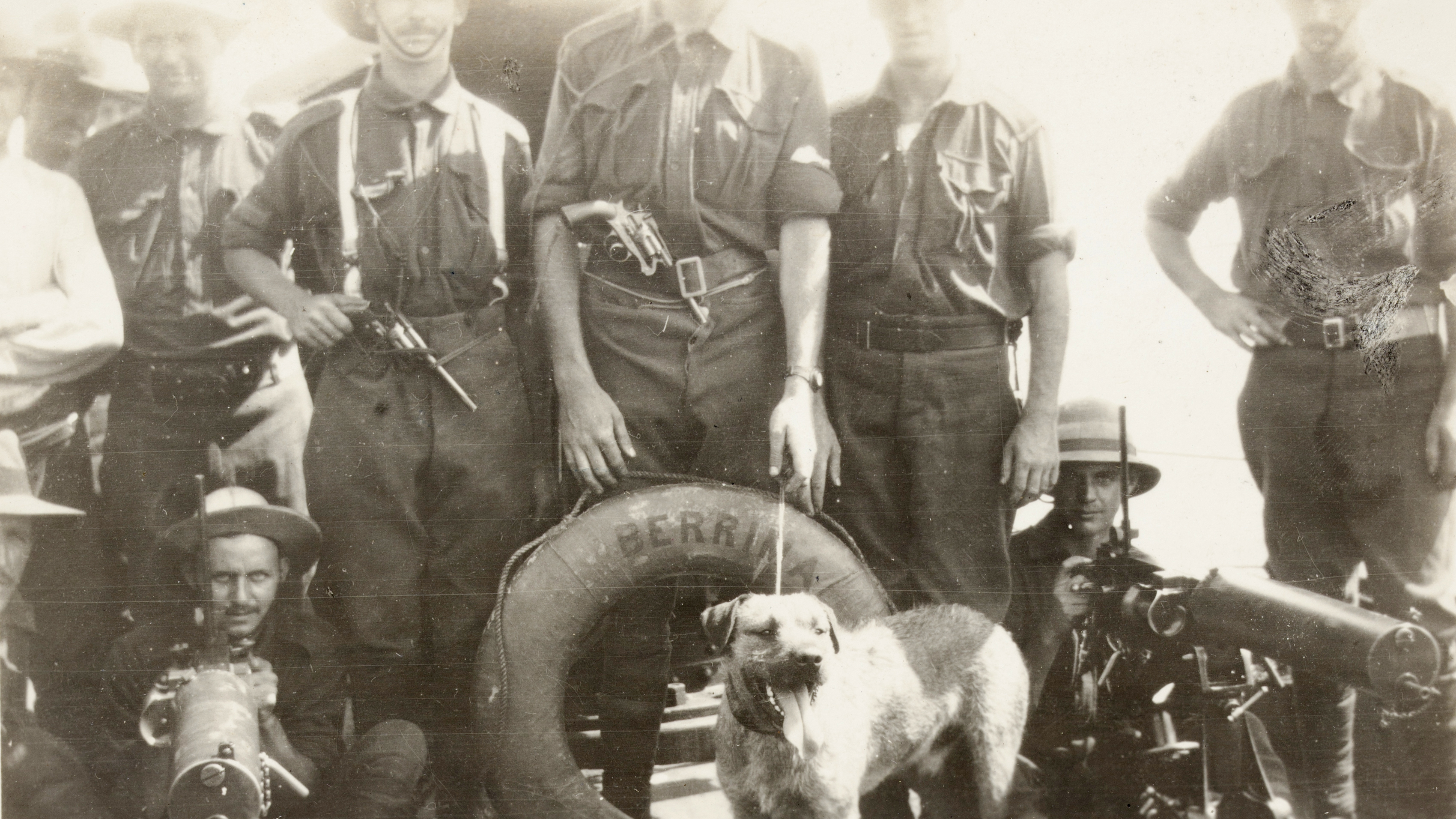 Machine gunners and soldiers of the first Australian Expeditionary force, HMS Berrima, Papua New Guinea, 1914, F. S. Burnell,, State Library of New South Wales, PXA 2165